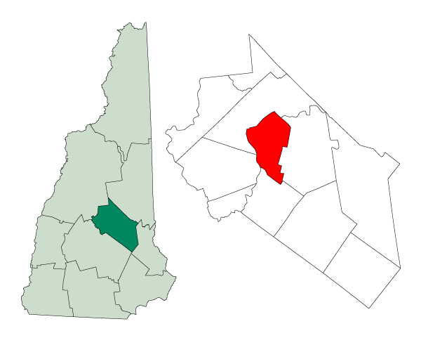 Map of a municipality in Belknap County, New Hampshire